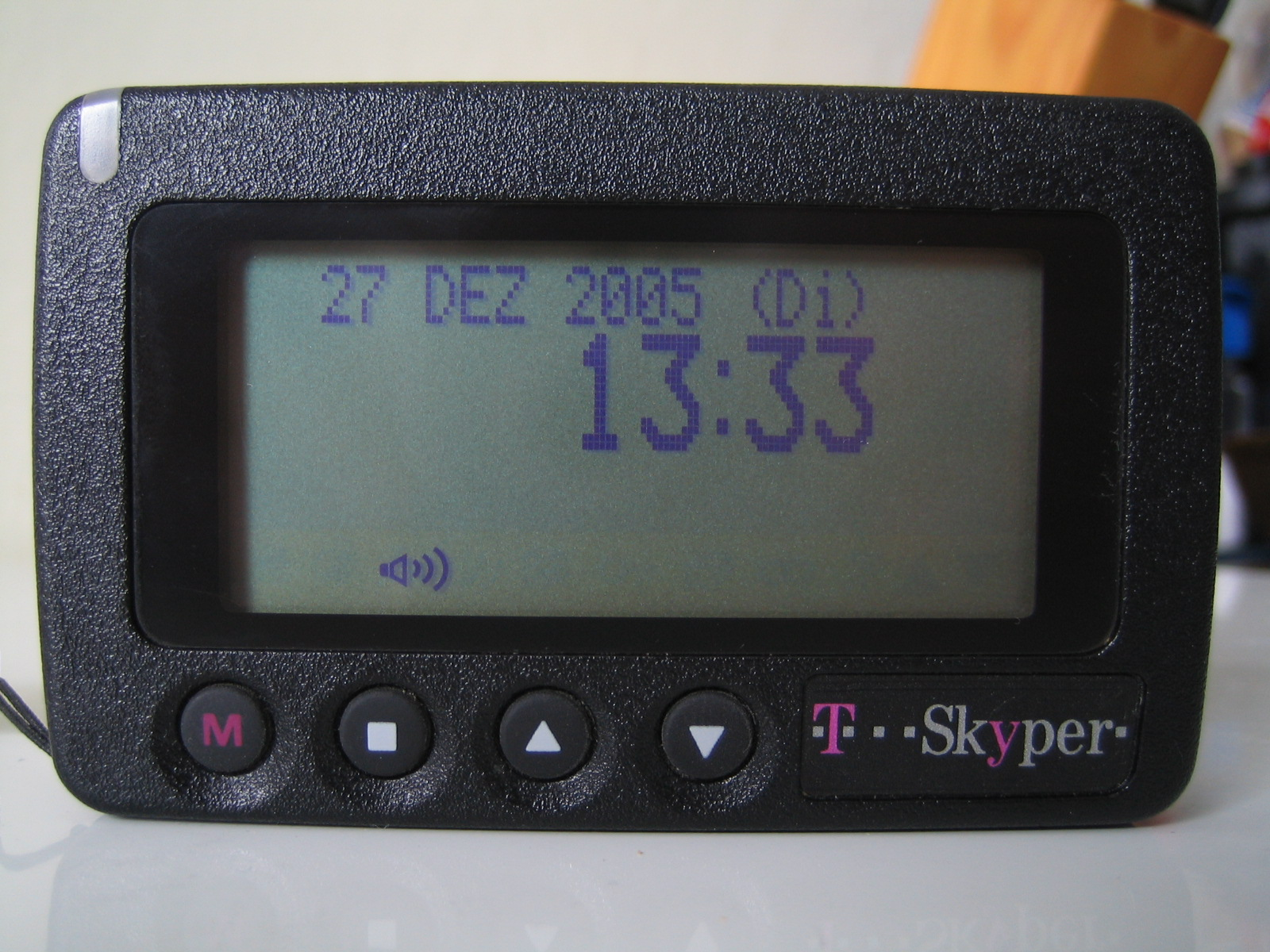 Skyper (re-branded NEC), Amateur radio POCSAG receivers